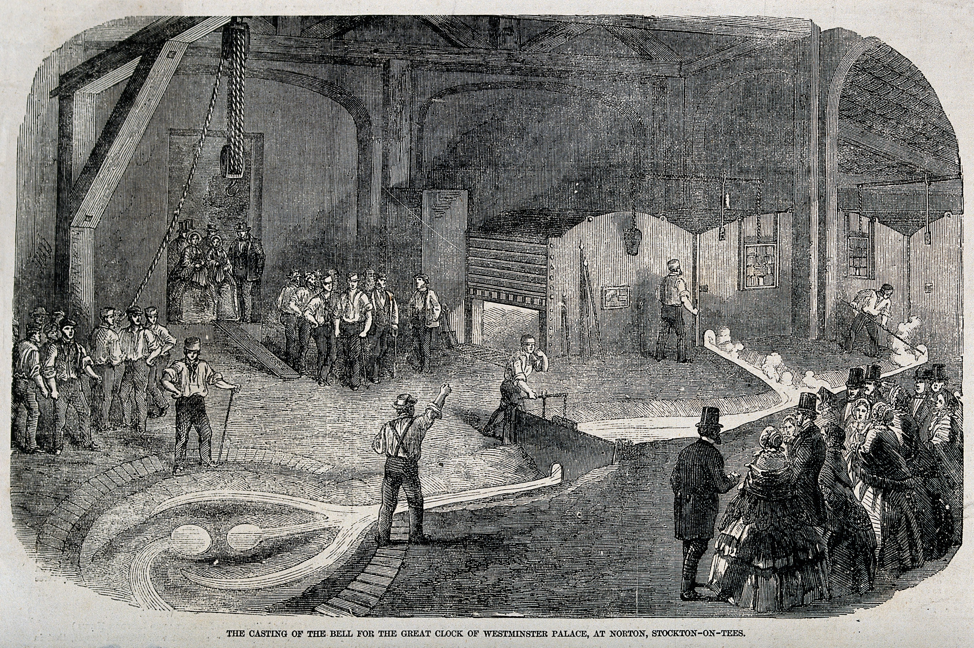 Clocks: casting a bell for the clock of the New Palace of Westminster. Wood engraving. Iconographic Collections